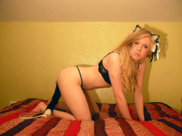 Missisibella at English Wikipedia in a kitten-play or cat-play outfit.